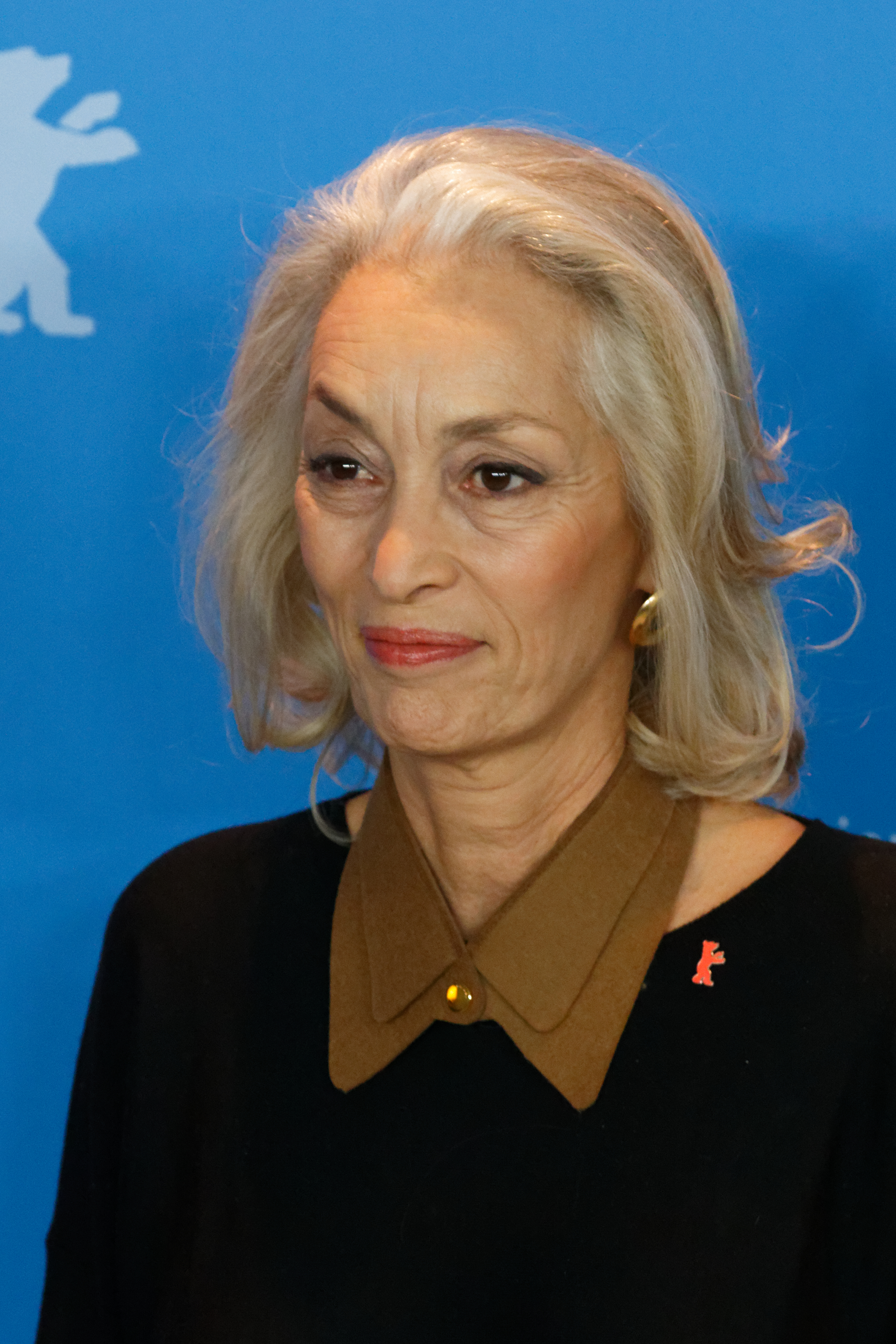 Dora Bouchoucha Fourati at Berlinale 2017